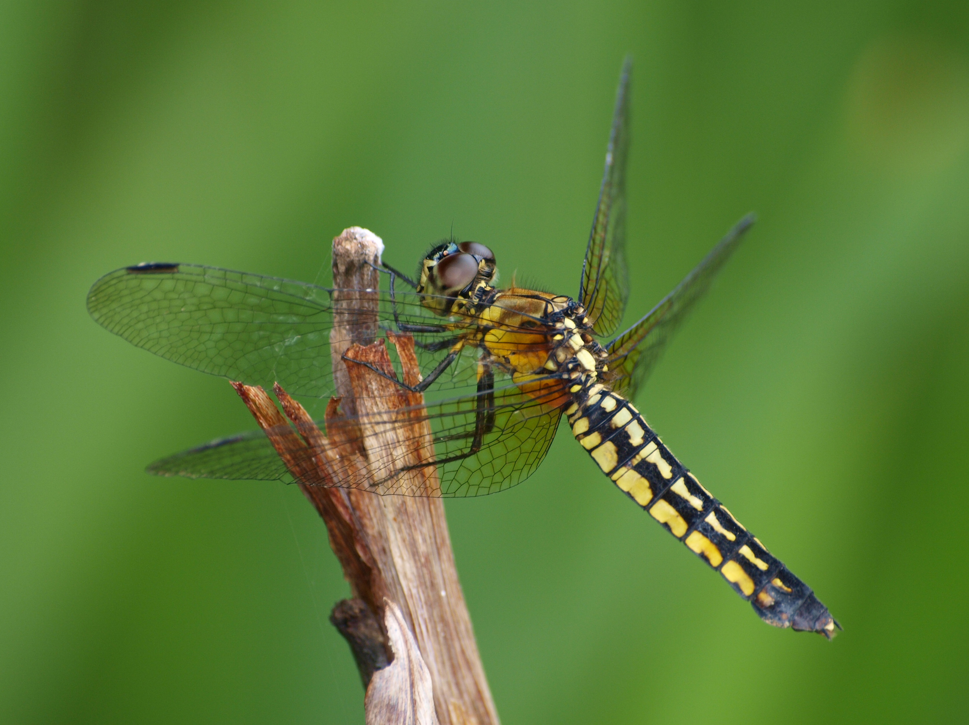 Lyriothemis pachygastra at Shimanto City,Kochi Pref,Japan